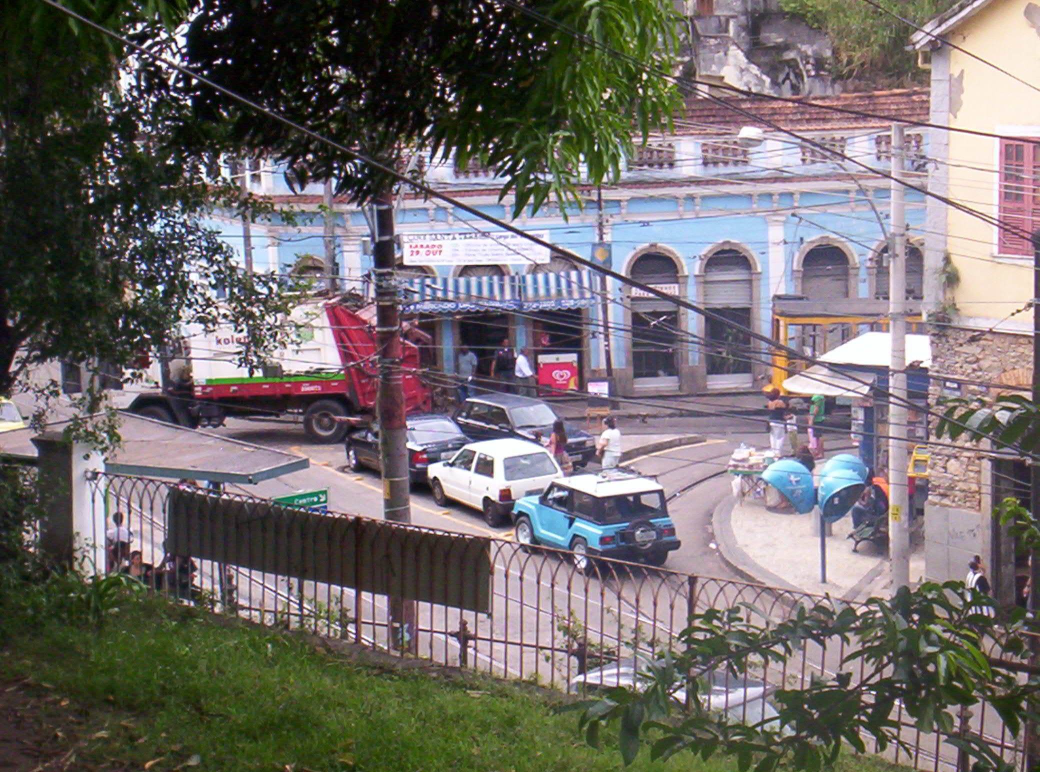 Picture of Largo do Guimarães in the neighborhood of Santa Teresa, in Rio de Janeiro, Brazil. At right, a tram is headed north on Rua Ladeira do Castro, on the track that leads to the carbarn/depot of the Santa Teresa Tramway; the tracks in the foreground are those of the main line, used by trams in service. Taken on 29/10/2005 by Patrick Ruela.